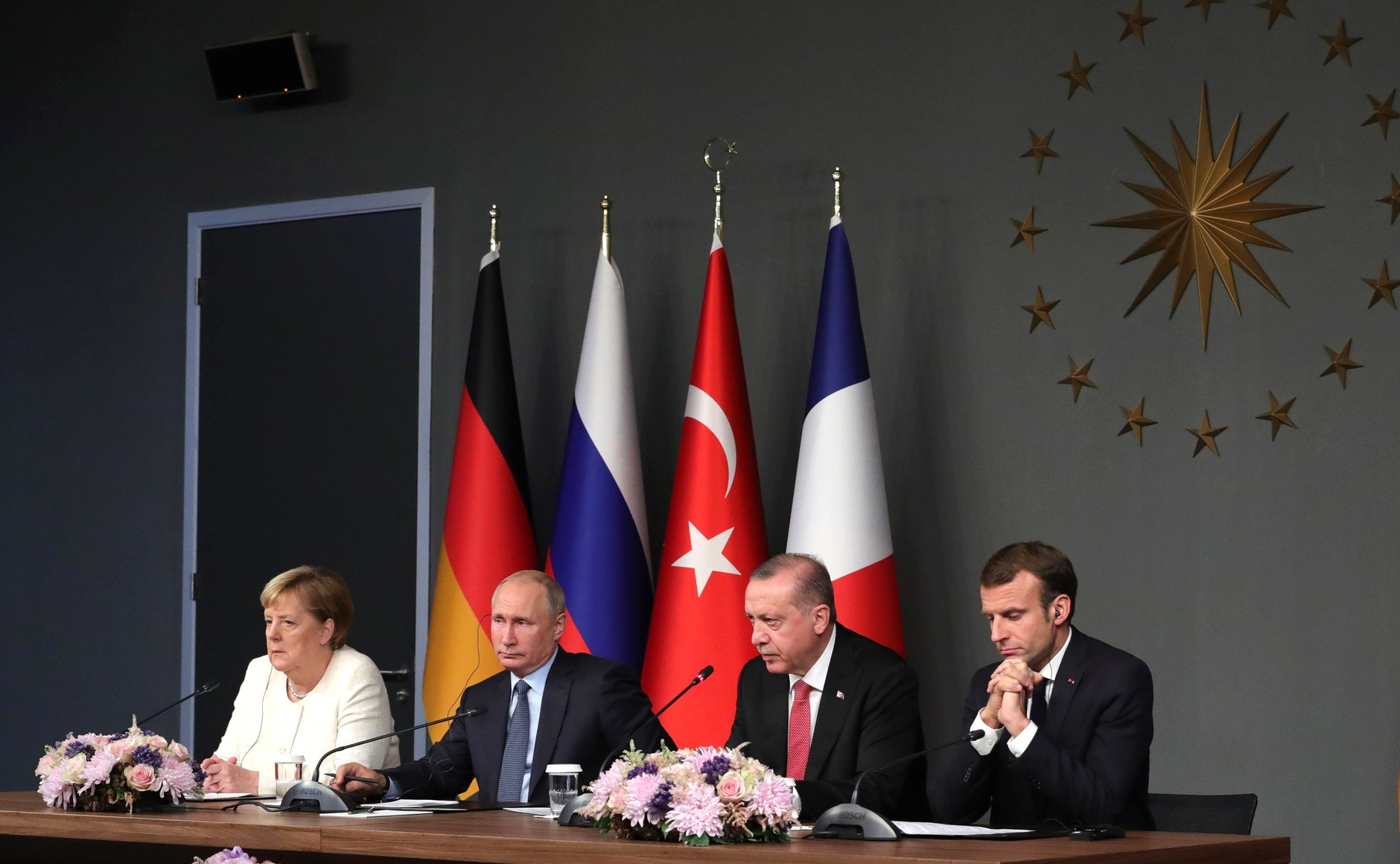 News conference following the meeting of the leaders of Russia, Turkey, Germany and France; Istanbul, Turkey